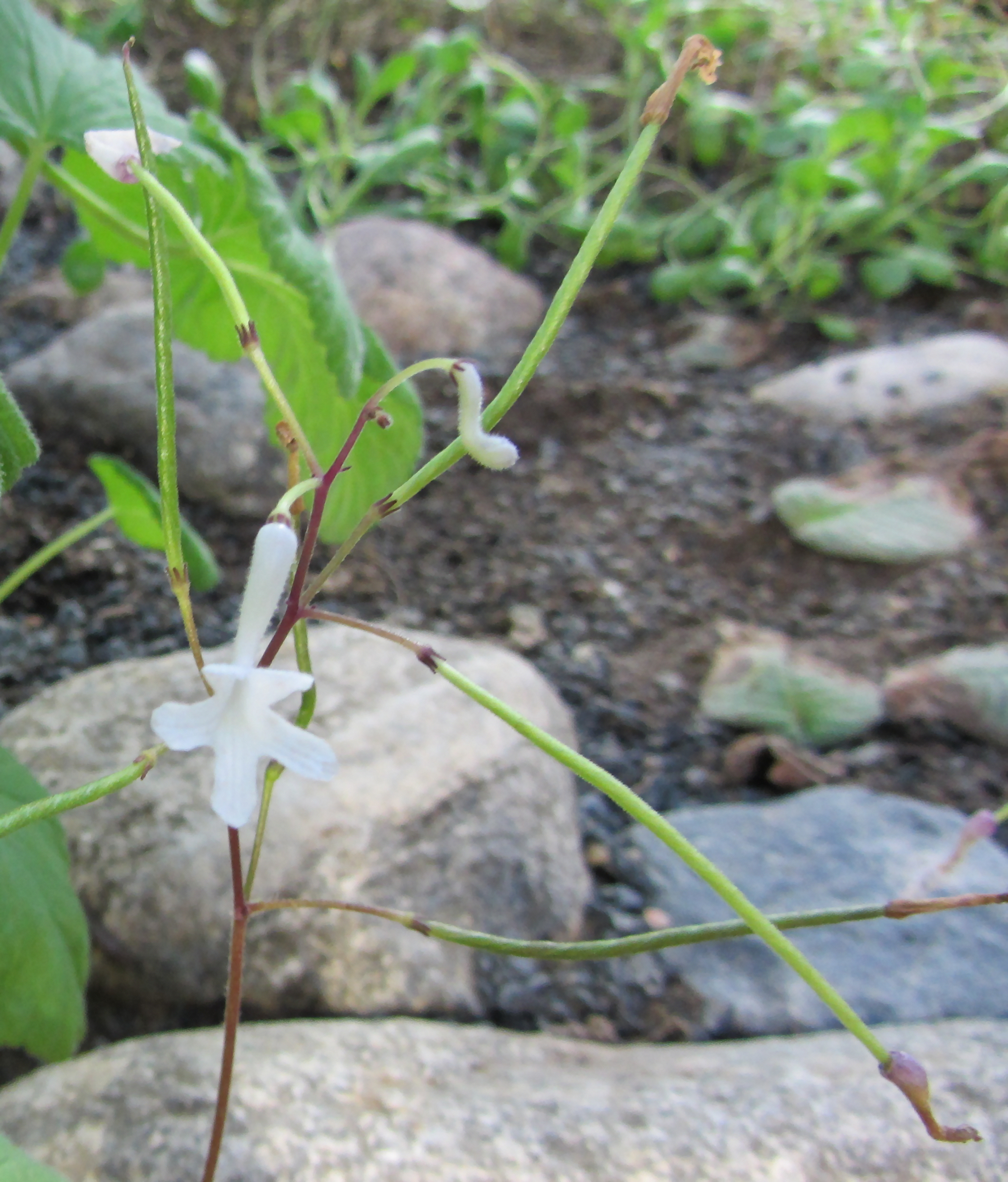 Streptocarpus prolixus (Cape primrose) in the Glasshouses of Kaisaniemi Botanical Garden